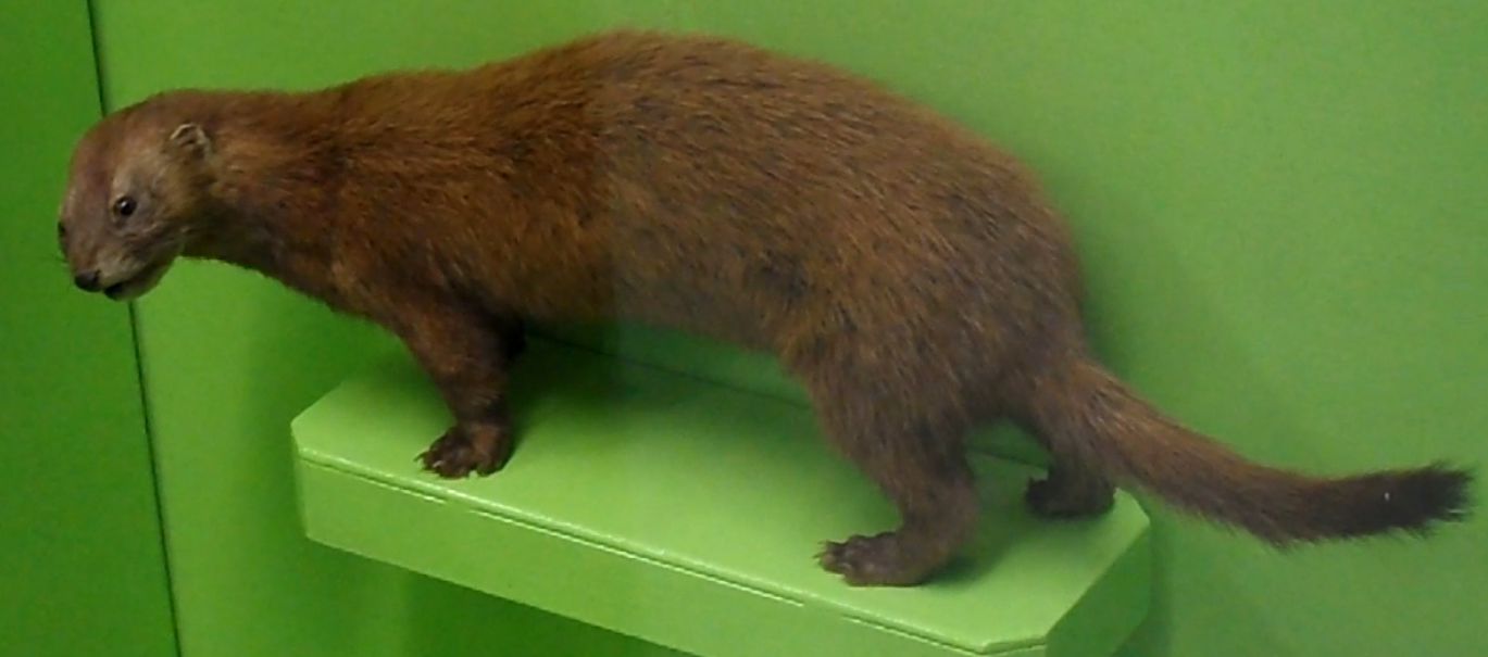 Romanian mink on display in the Natural History Museum of Genoa